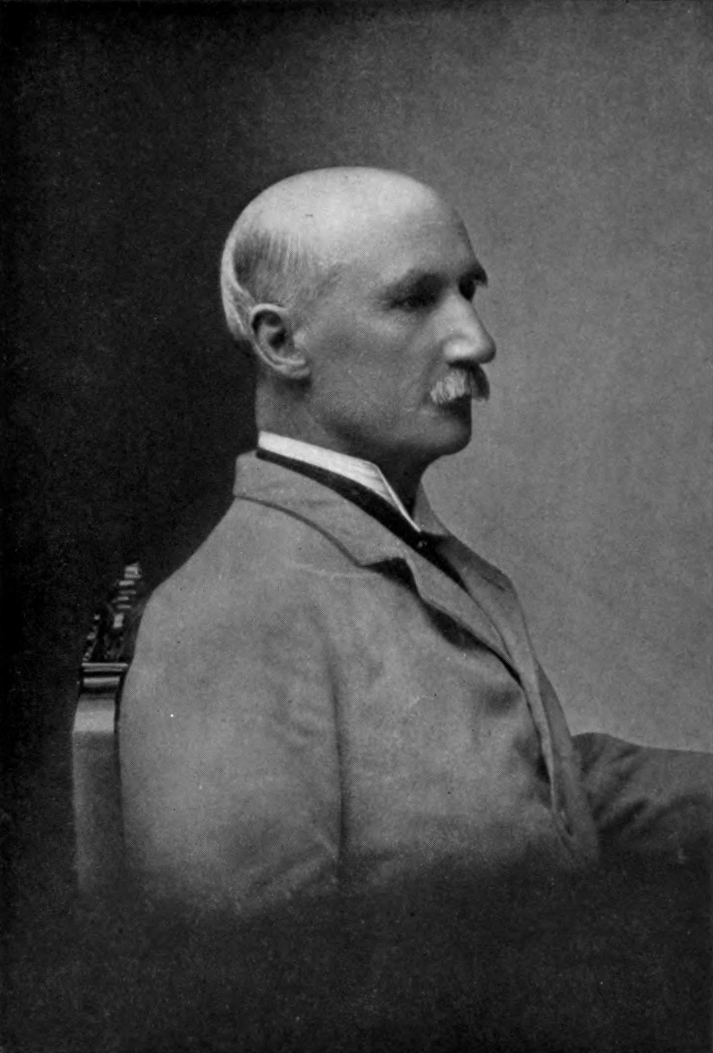 Photograph of newspaper editor and author Captain Francis Brinkley (1841-1912).